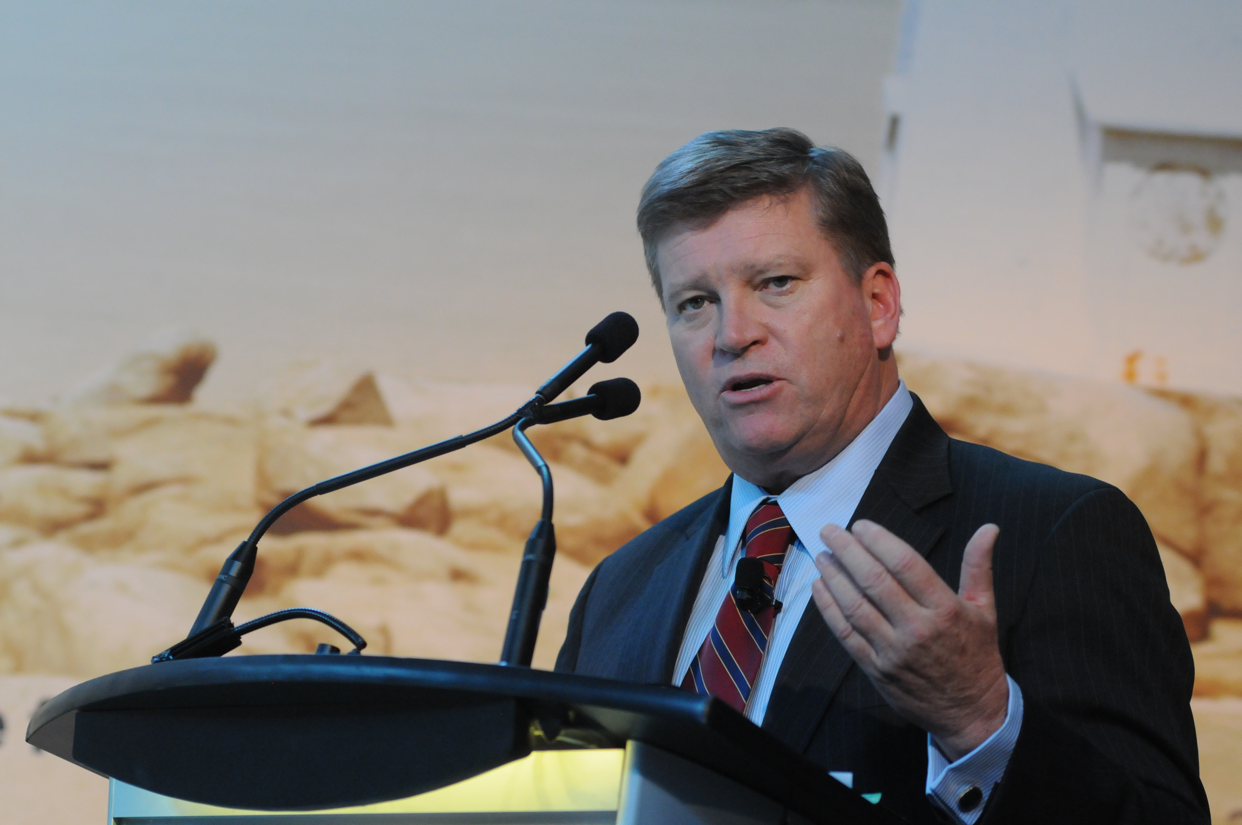 CTV's Tom Clark moderates a plenary session at the 2012 Halifax International Security Forum.